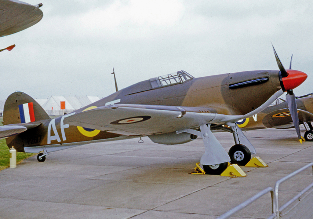 Hawker Hurricane I P2617 in the markings of 607 Squadron RAF at Abingdon in 1968